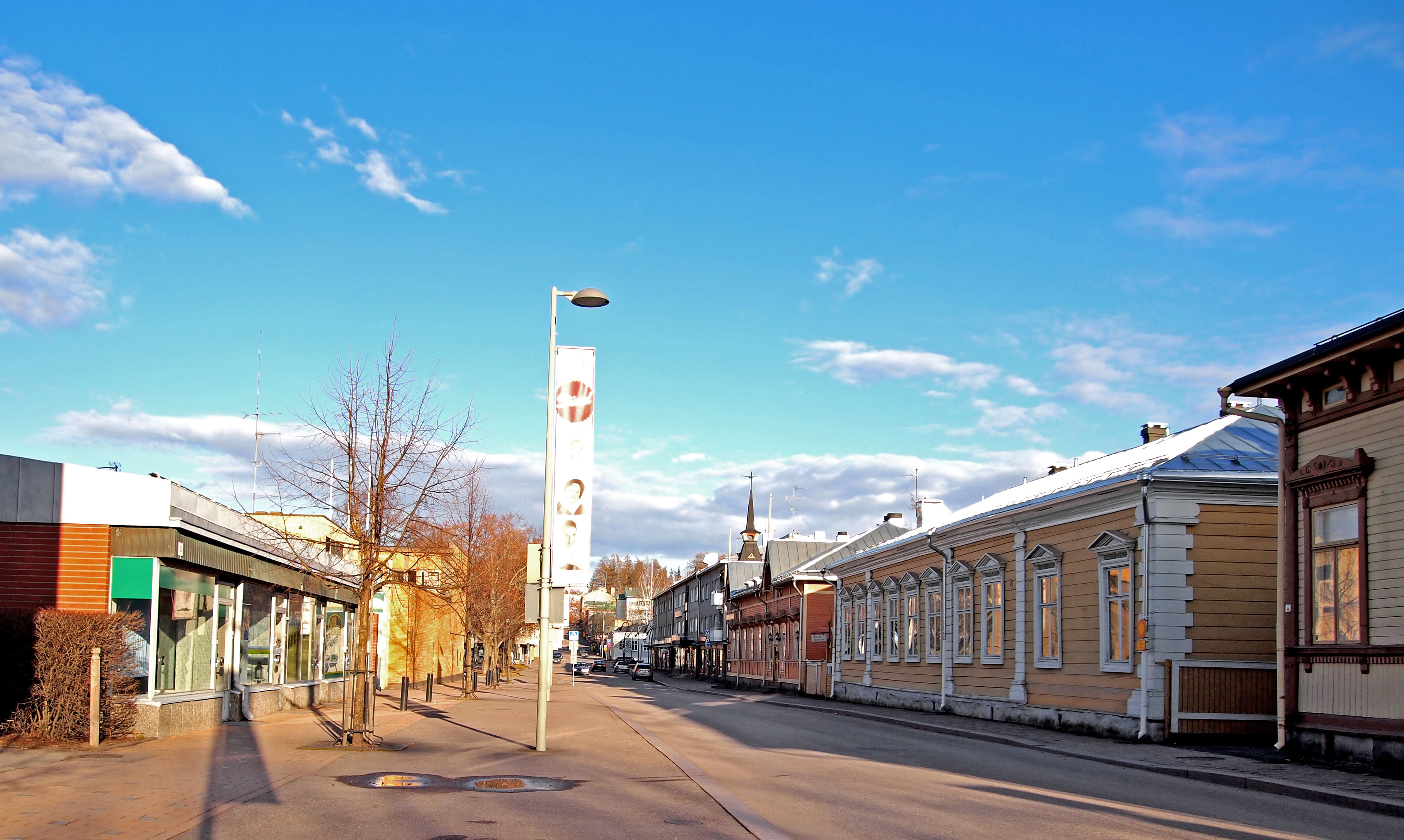 View along the street Kauppakatu in Heinola.